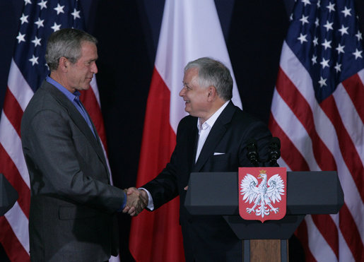 Polish President Lech Kaczyński and American President George W. Bush shake hands in June 2007.